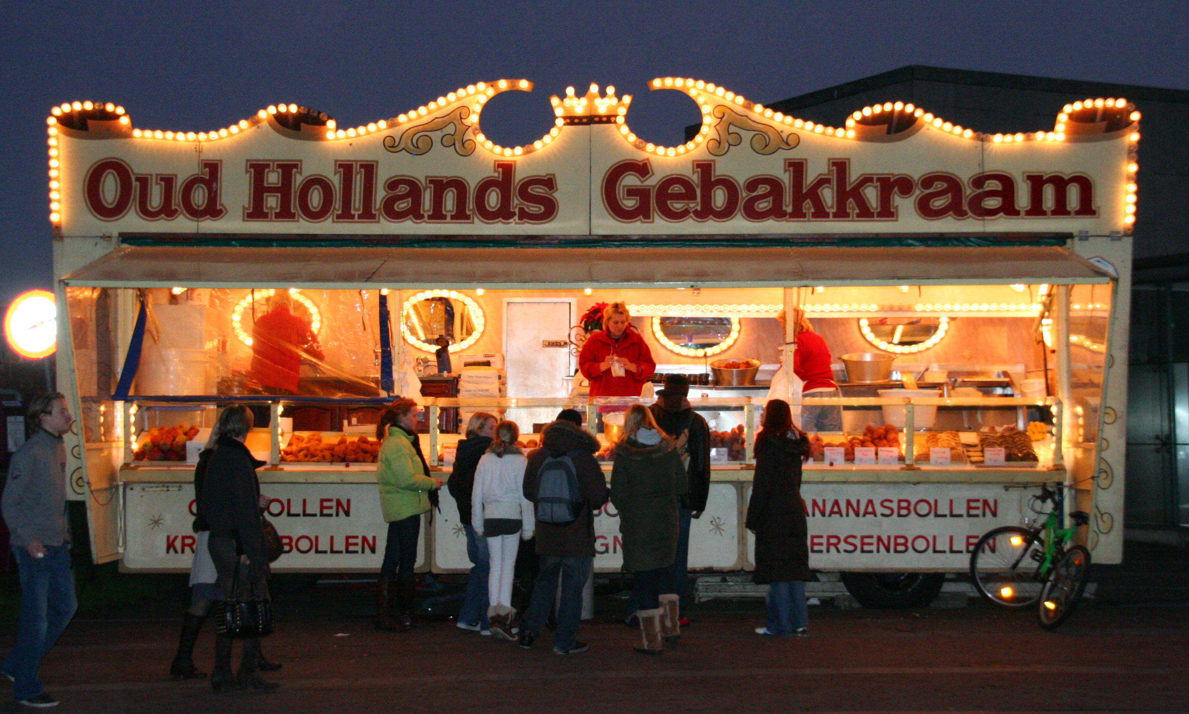 oliebollen wagon